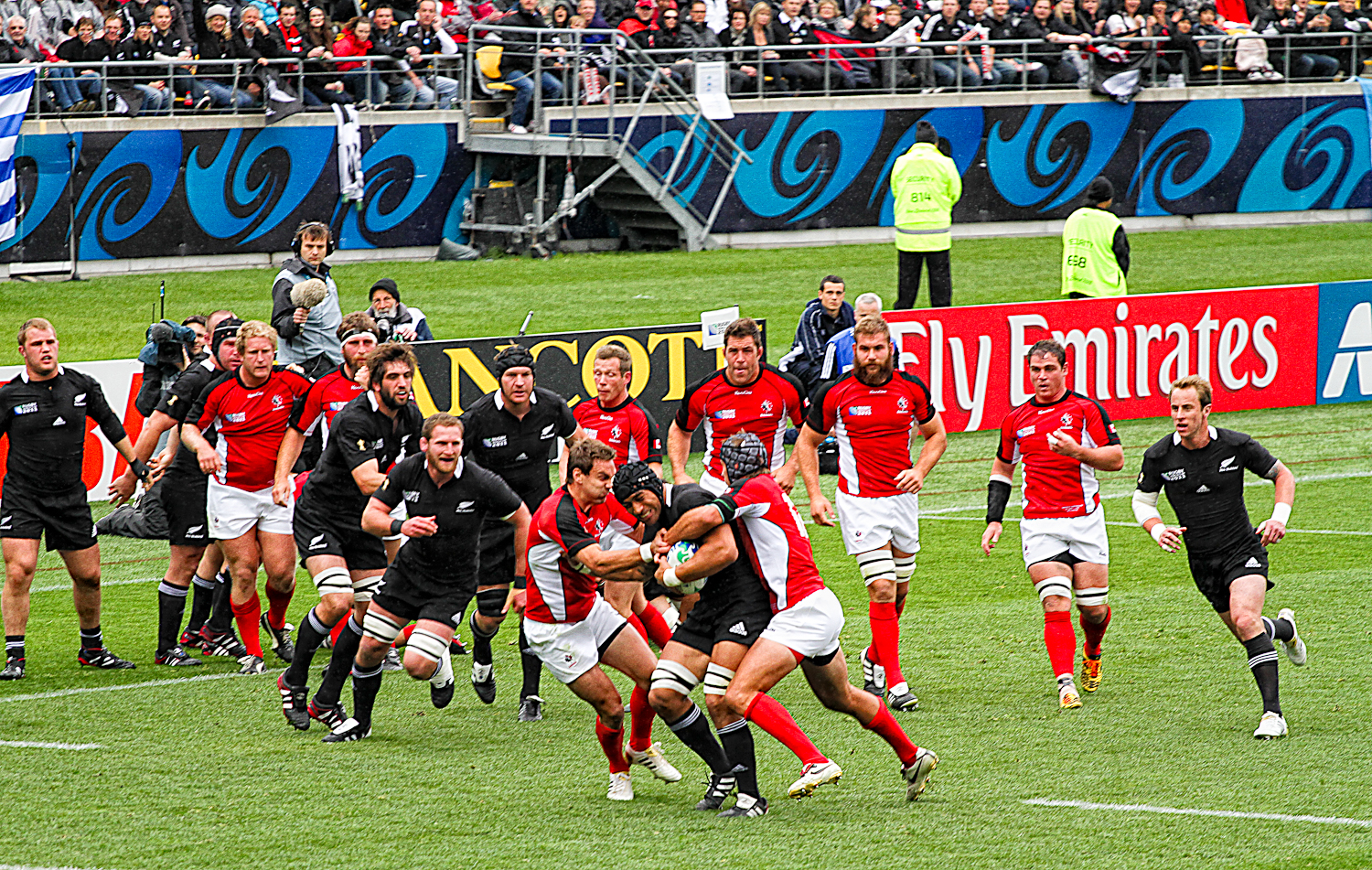 Match between New Zealand vs Canada during 2011 Rugby World Cup in New Zealand. Original description: Victor Vito of NZ about to score against Canada. NZ won this game 79-15 to advance to the Quarter Finals of the World Cup. NZ is currently ranked #1 in the world so Canada at #12 was always going to have a tough battle against the mighty All Blacks.